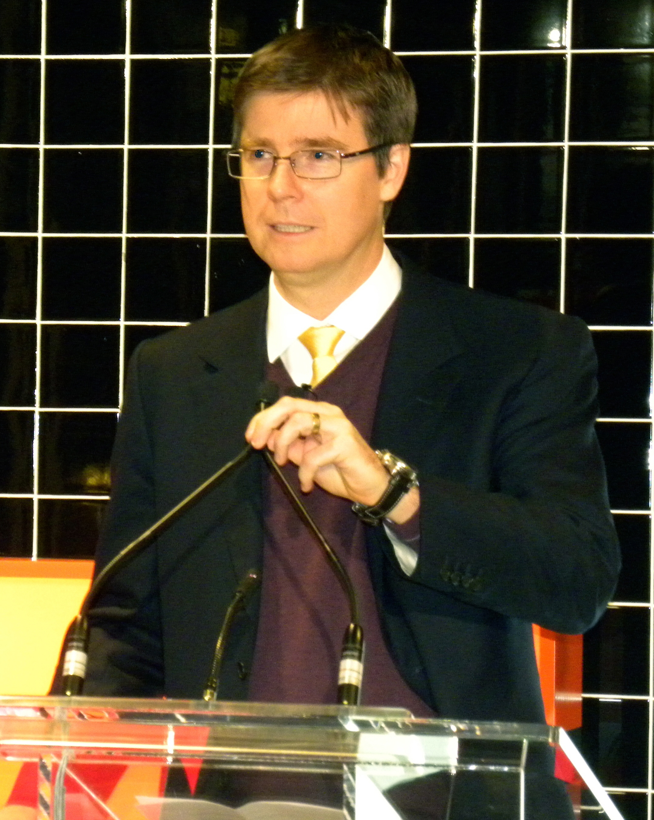 Why, of course he will!